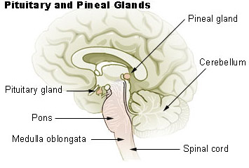 Picture of pituitary and pineal glands